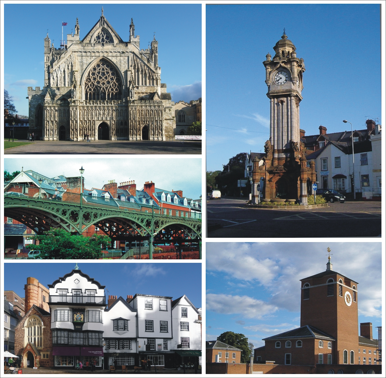 Exeter sights collage.